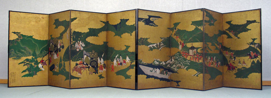 Japan; Screen; Screens